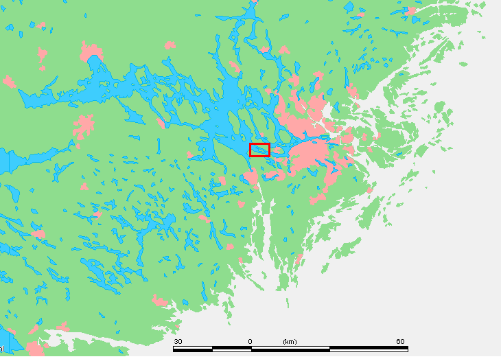 Island of Sweden - Helgo.PNG